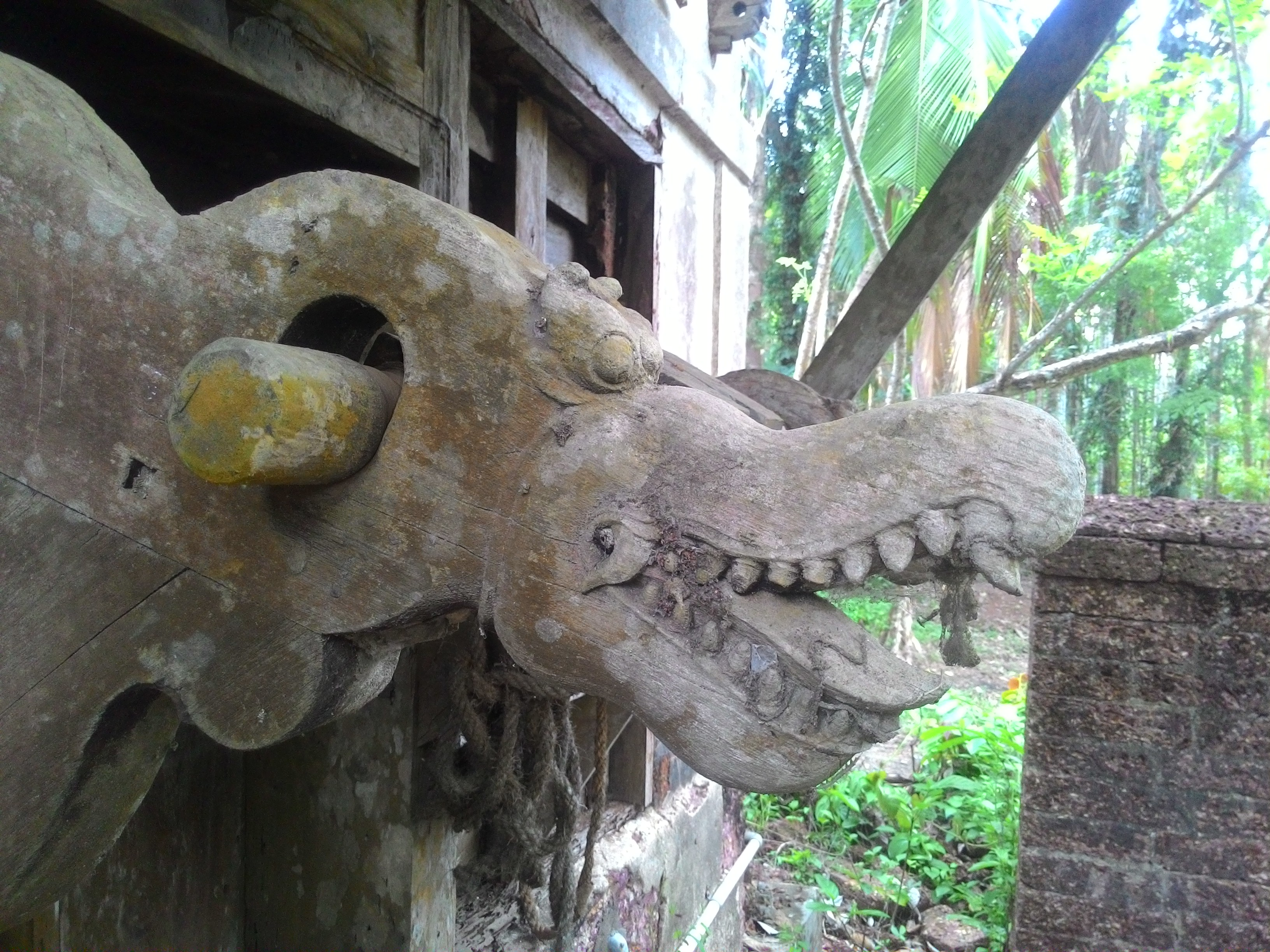 artwork in wooden pulley,Varanakkottillam